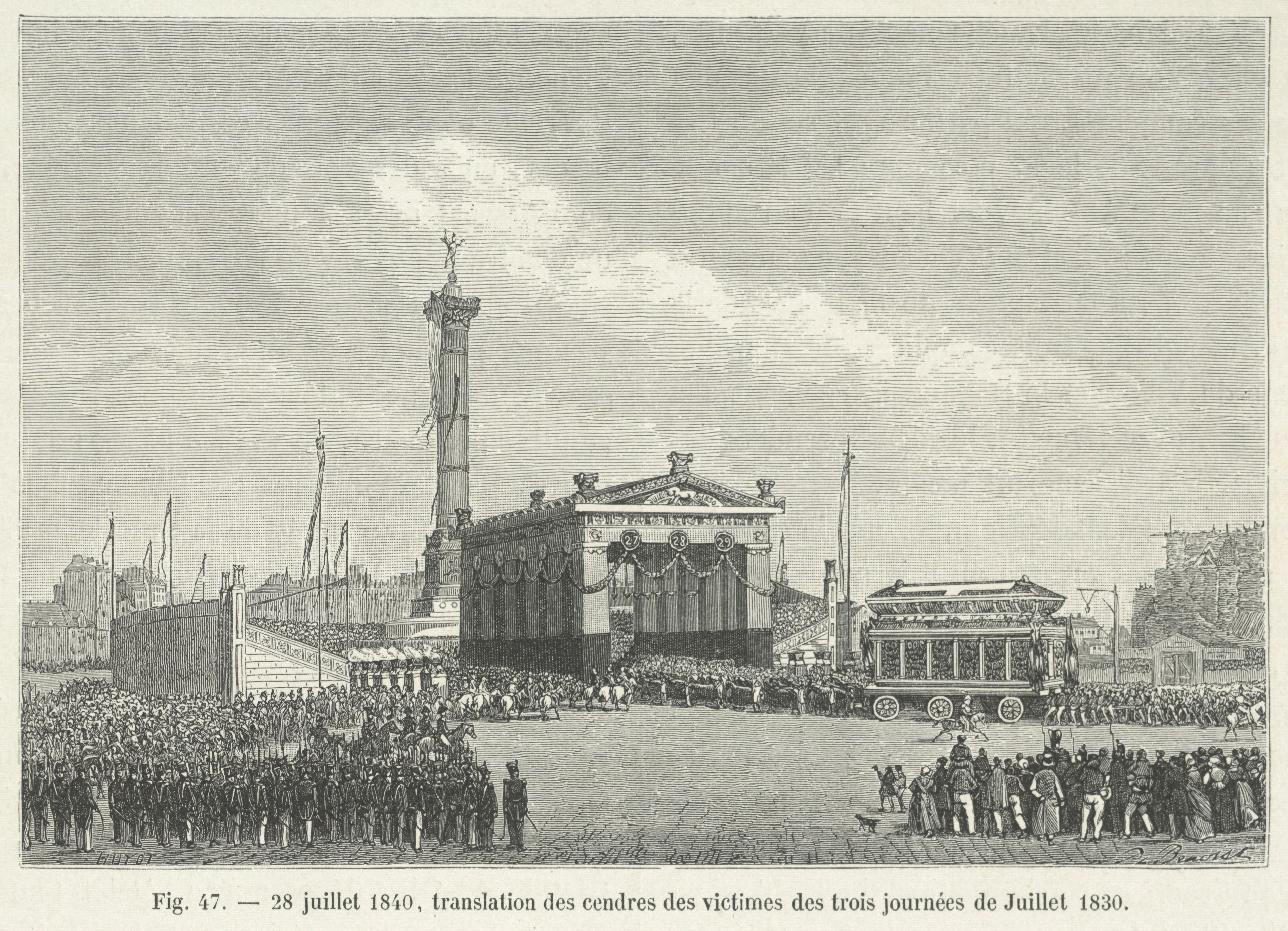 In a ceremony to honor the victims of the July Revolution of 1830, a column was erected in the Place de la Bastille in 1840. The inaugural ceremony also consisted of a translation of the ashes of various revolutionary victims.